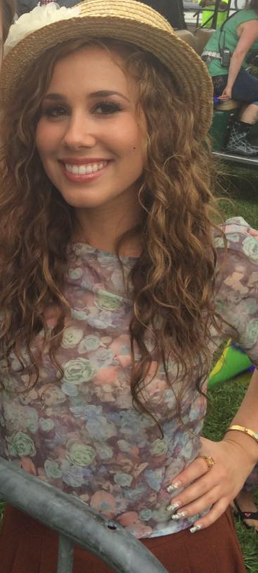 An image of singer-songwriter Haley Reinhart in New Orleans on April 10, 2015.